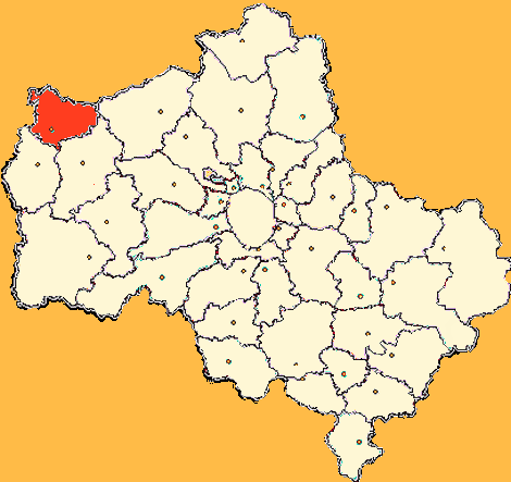 Moscow Region map by Al Silonov